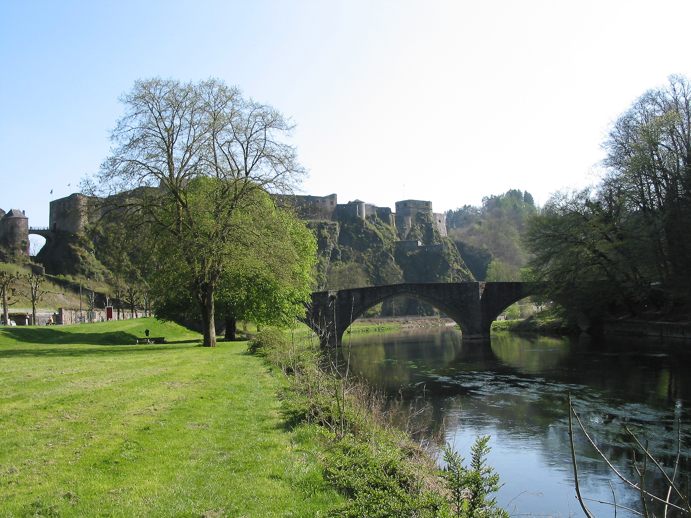 Bouillon (Belgium): the old bridge on the Semois river and the fortified castle (10th–16th centuries).